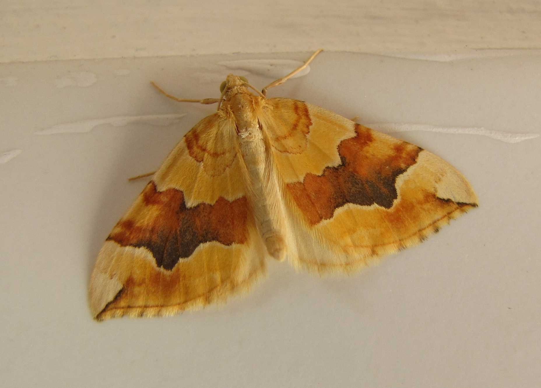 Cidaria fulvata (Forster, 1771), Larentiinae, Geometridae, Lepidoptera, Groß Machnow, Brandenburg, Germany